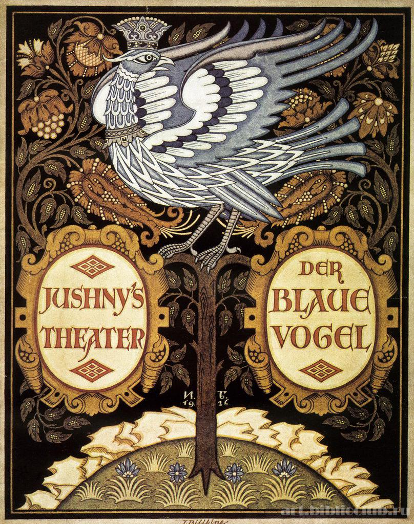 Blue Bird by Ivan Bilibin